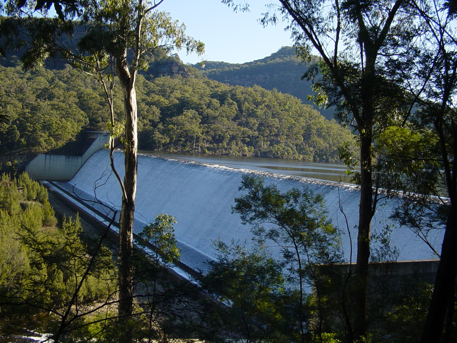 A photograph Knows took of Tallowa Dam on the 17th of July 2010 . Reported storage at the time of the photo was 100% of capacity. Uploaded for the Shoalhaven Scheme article.